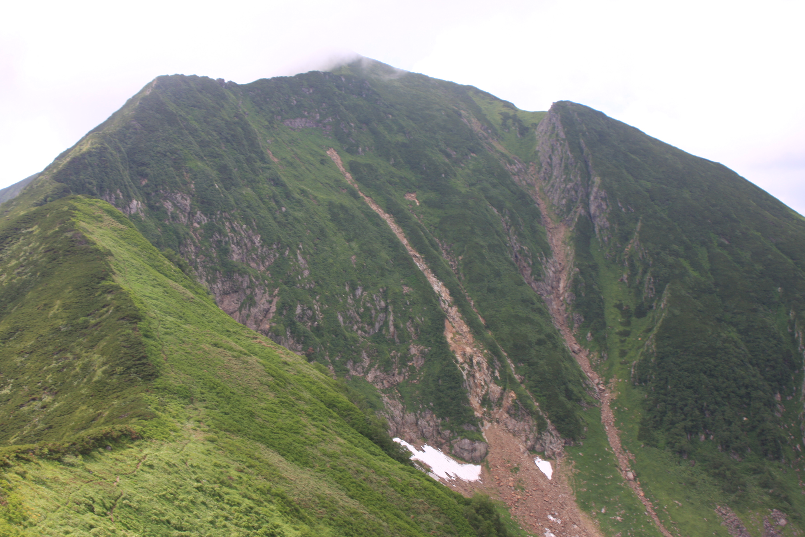 Mount Kamuiekuuchikaushi (Kamuiekuuchikaushi-yama) seen from the ESE, in the Hidaka Mountains. Taken from the near 1853 metres peak.